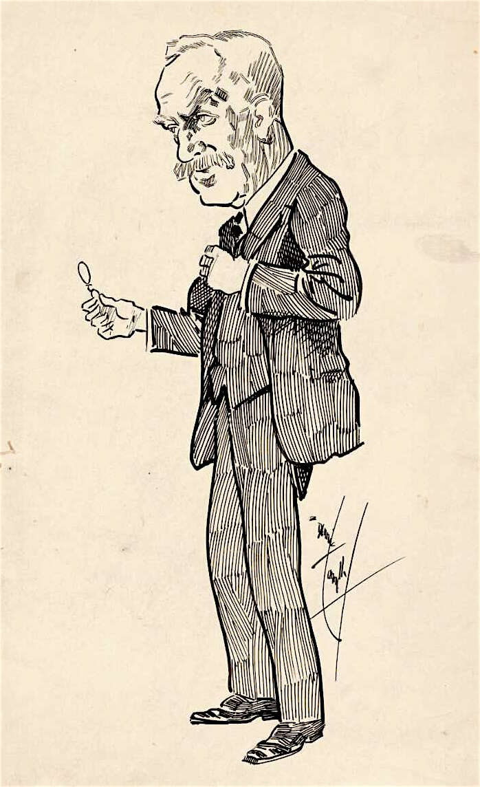 Caricature of Frank Tudor, leader of the Australian Labor Party 1917-1922